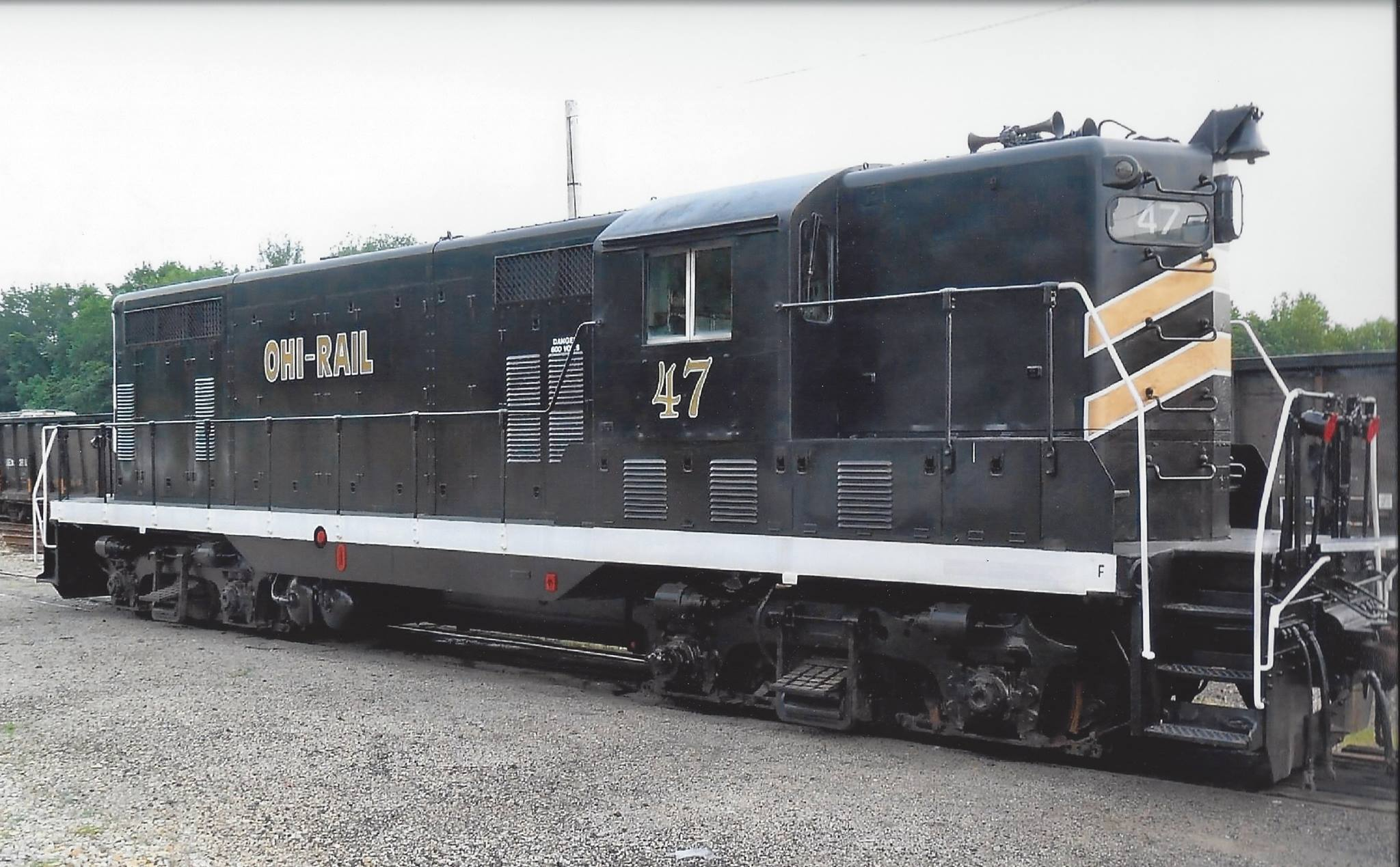 Ohi-Rail Locomotive #47